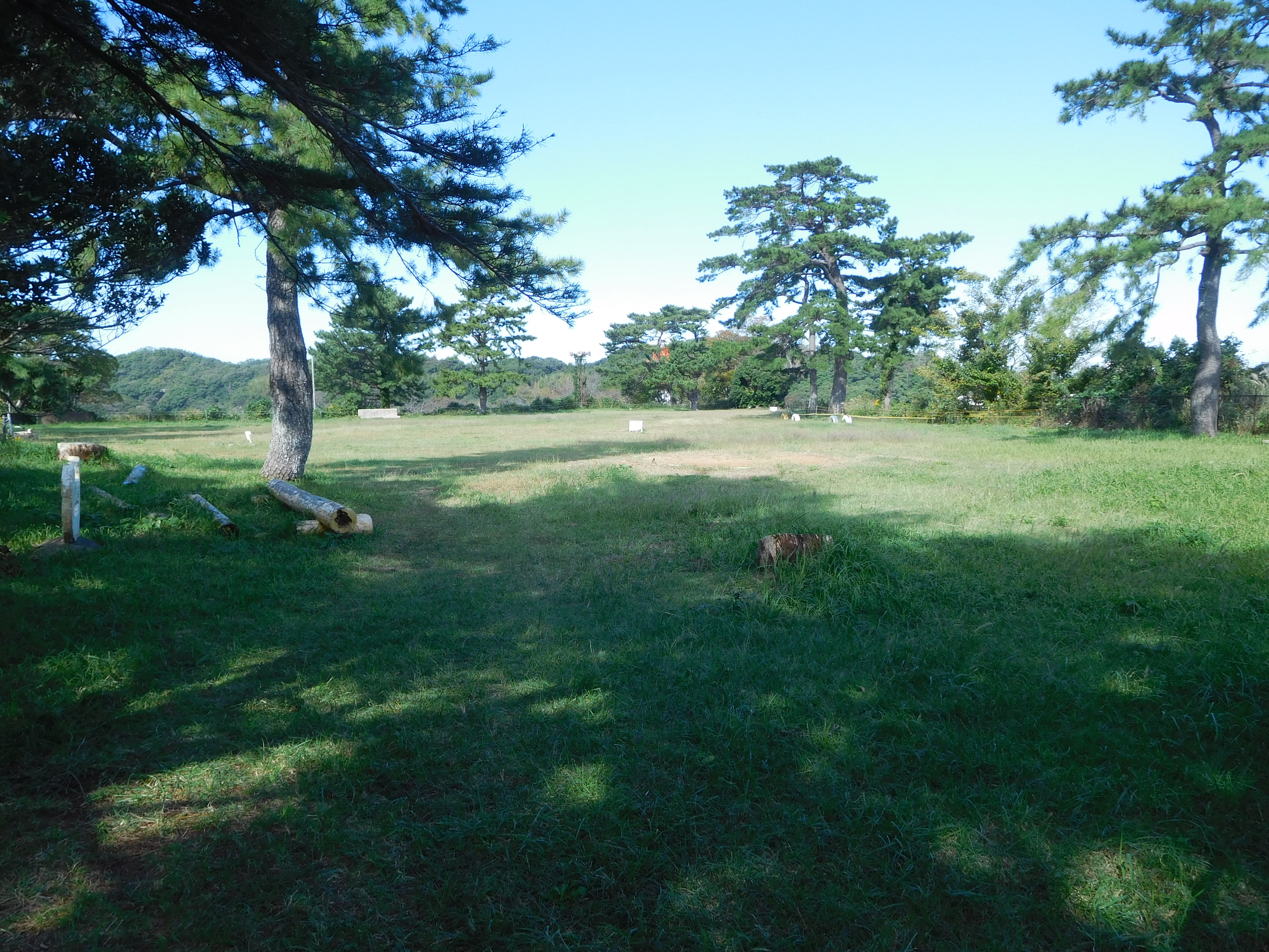 This is the play ground of Former Toba Elementary School in Toba, Mie, Japan. Here is Toba castle site.